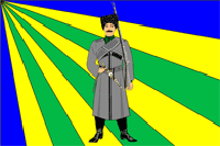 Flag of the Novoplastunovskoe rural settlement, Krasnodar krai, Russia